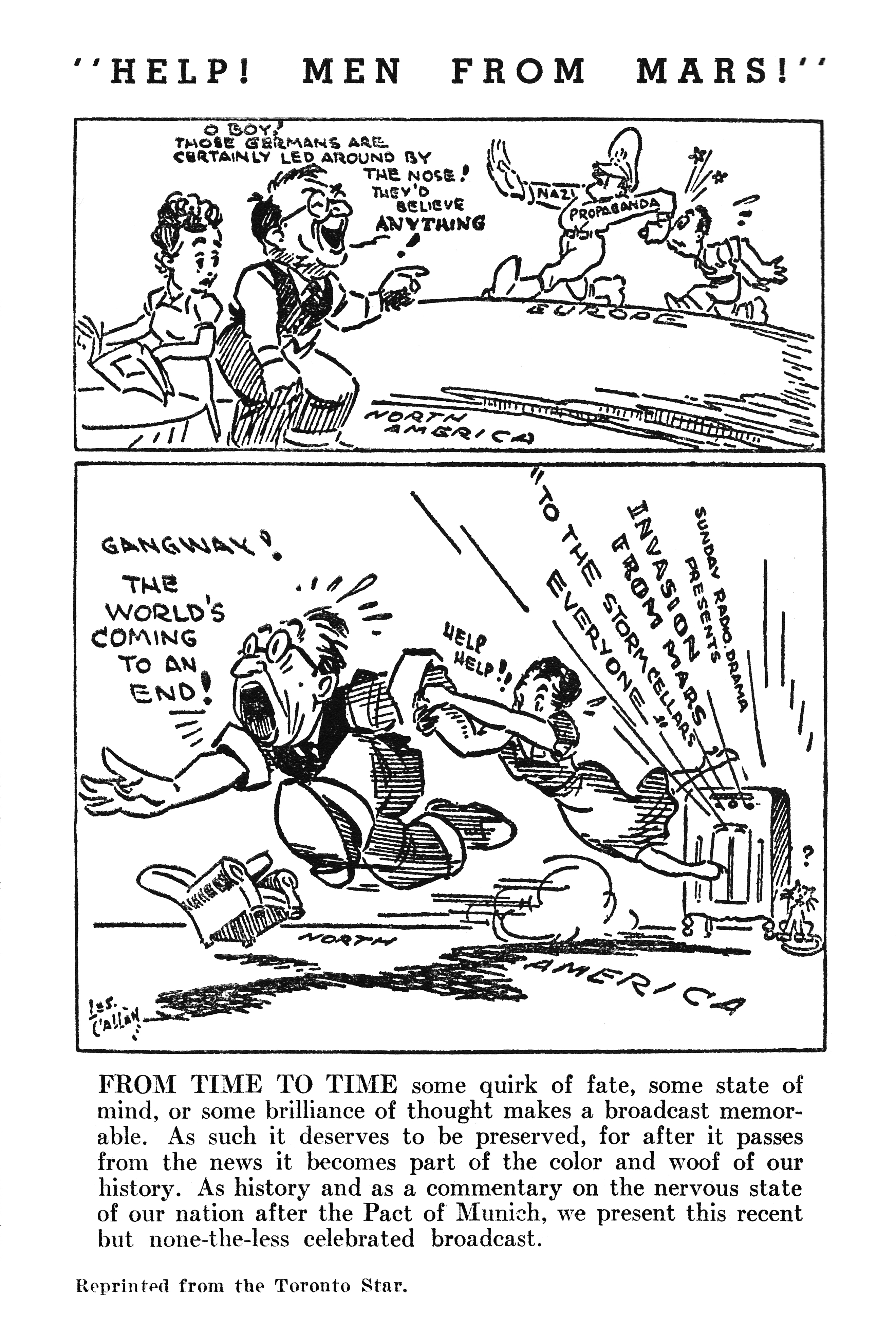 Editorial cartoon by Les Callan (1905–1986), reprinted from The Toronto Star in Radio Digest (February 1939)No date is provided for the original printing in The Toronto Star. The cartoon appears below a headline, "Memorable Broadcasts," and prefaces a printing of the transcript of the original radio play, The War of the Worlds, broadcast October 30, 1938. The text below the editorial cartoon reads as follows:FROM TIME TO TIME some quirk of fate, some state of mind, or some brilliance of thought makes a broadcast memorable. As such it deserves to be preserved, for after it passes from the news it becomes part of the color and woof of our history. As history and as a commentary on the nervous state of our nation after the Pact of Munich, we present this recent but none-the-less celebrated broadcast.